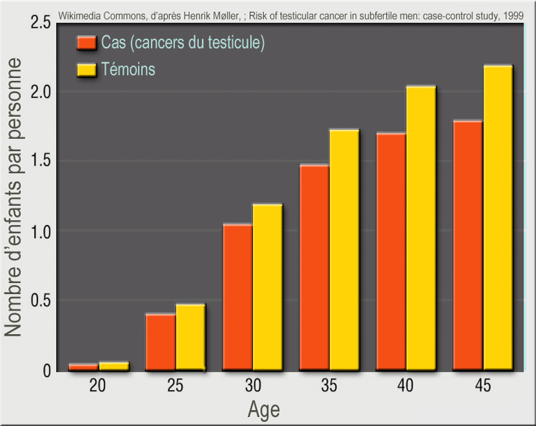 fertilities of men with testicular cancer compared with control men